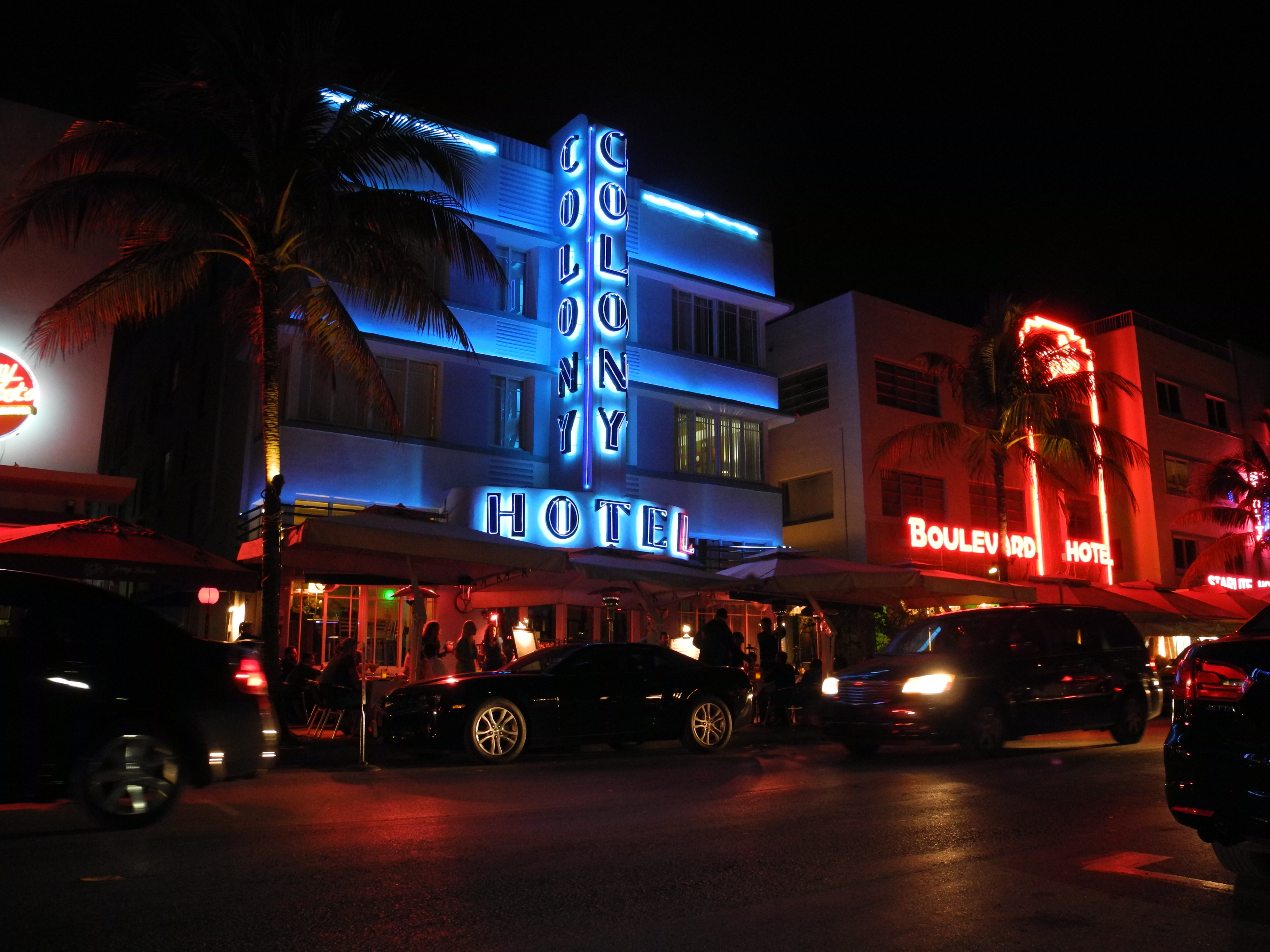 Colony Hotel, Ocean Drive